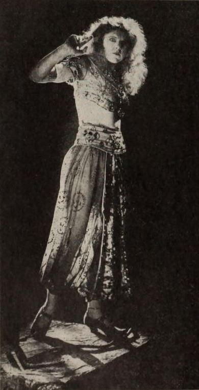 Still from the American film serial Bride 13 (1920) with Marguerite Clayton, on page 60 of the September 4, 1920 Exhibitors Herald.